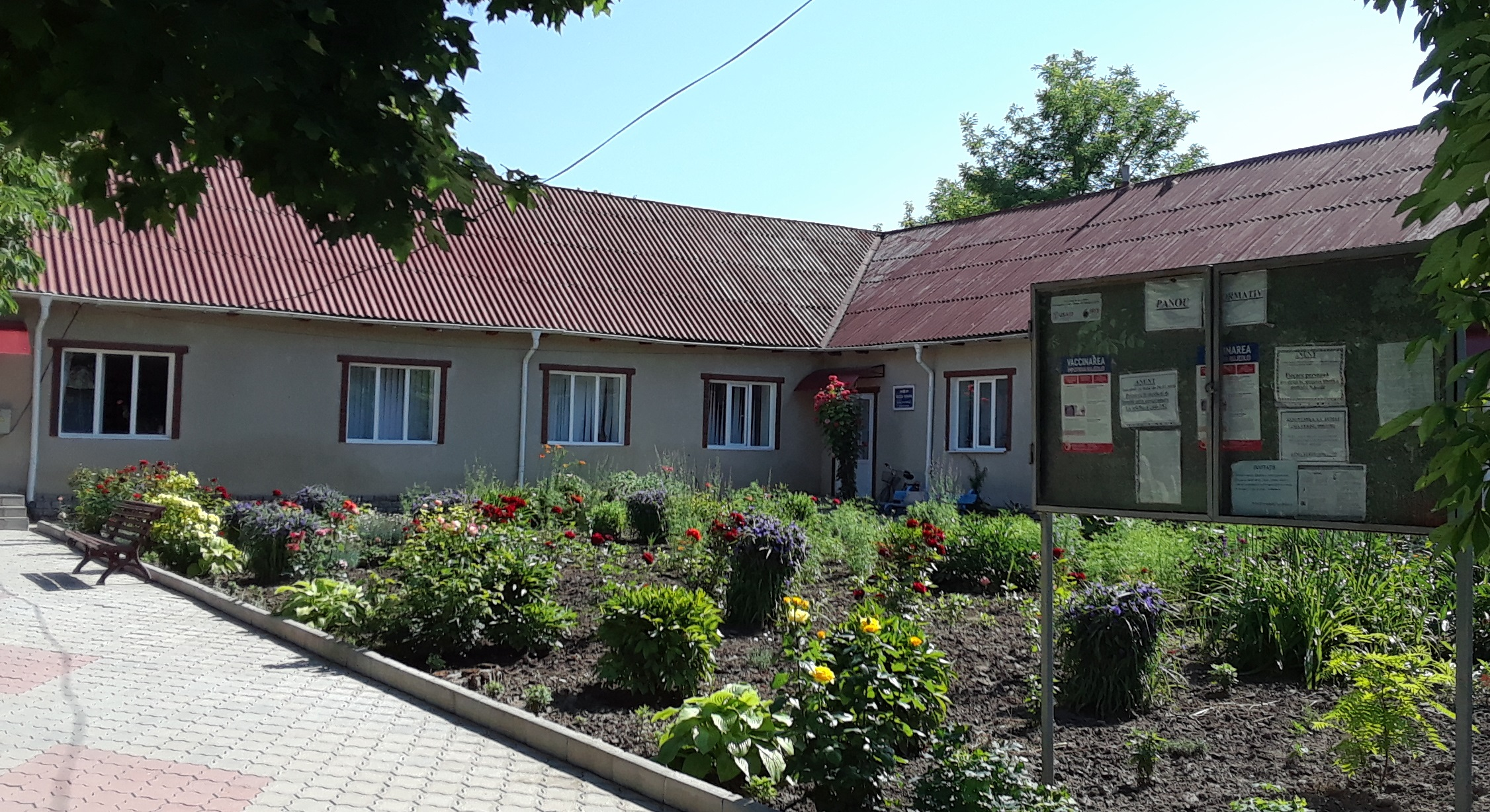 Sanatauca Medical Center